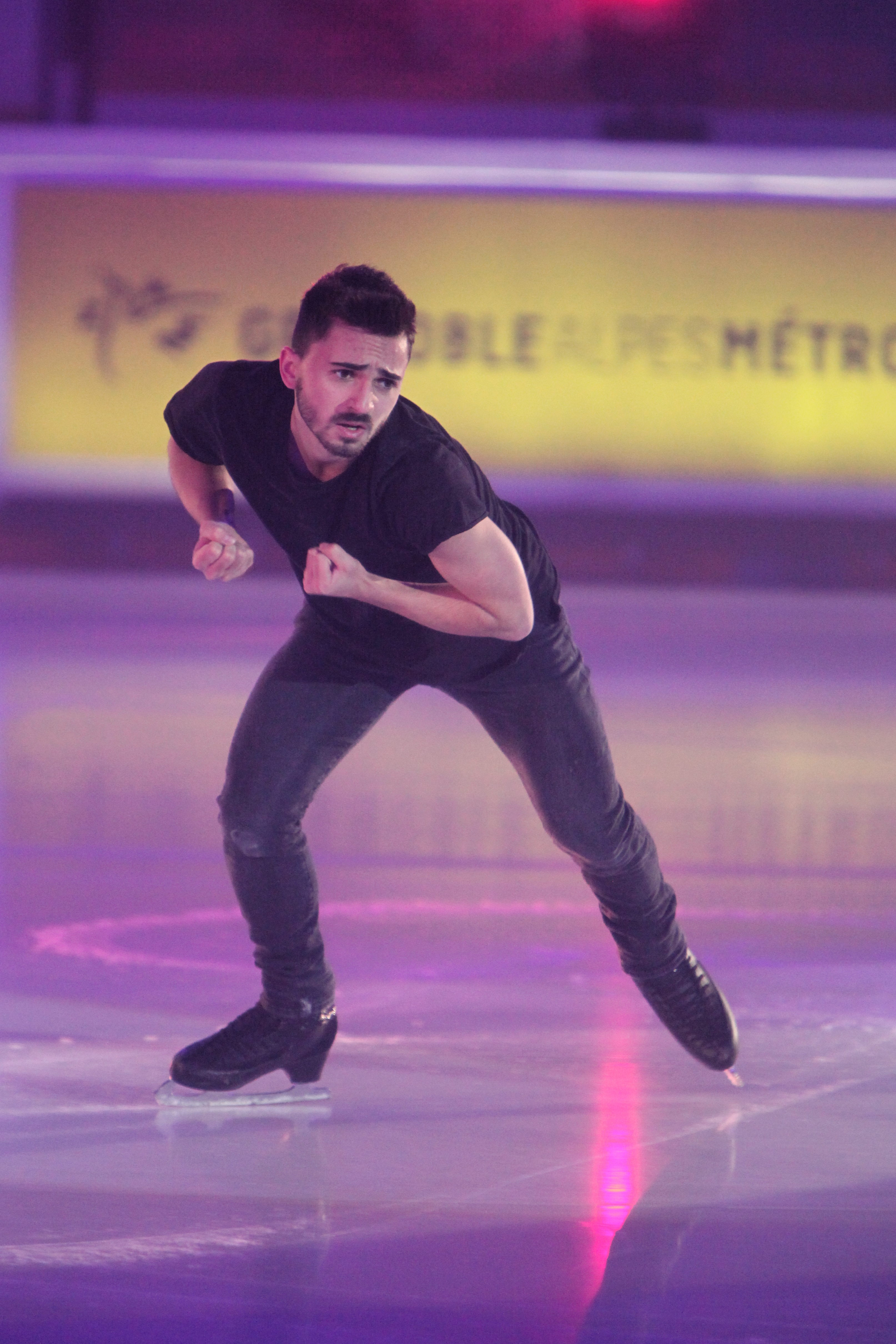 Kévin Aymoz during the gala at the Internationaux de France de Patinage 2018.